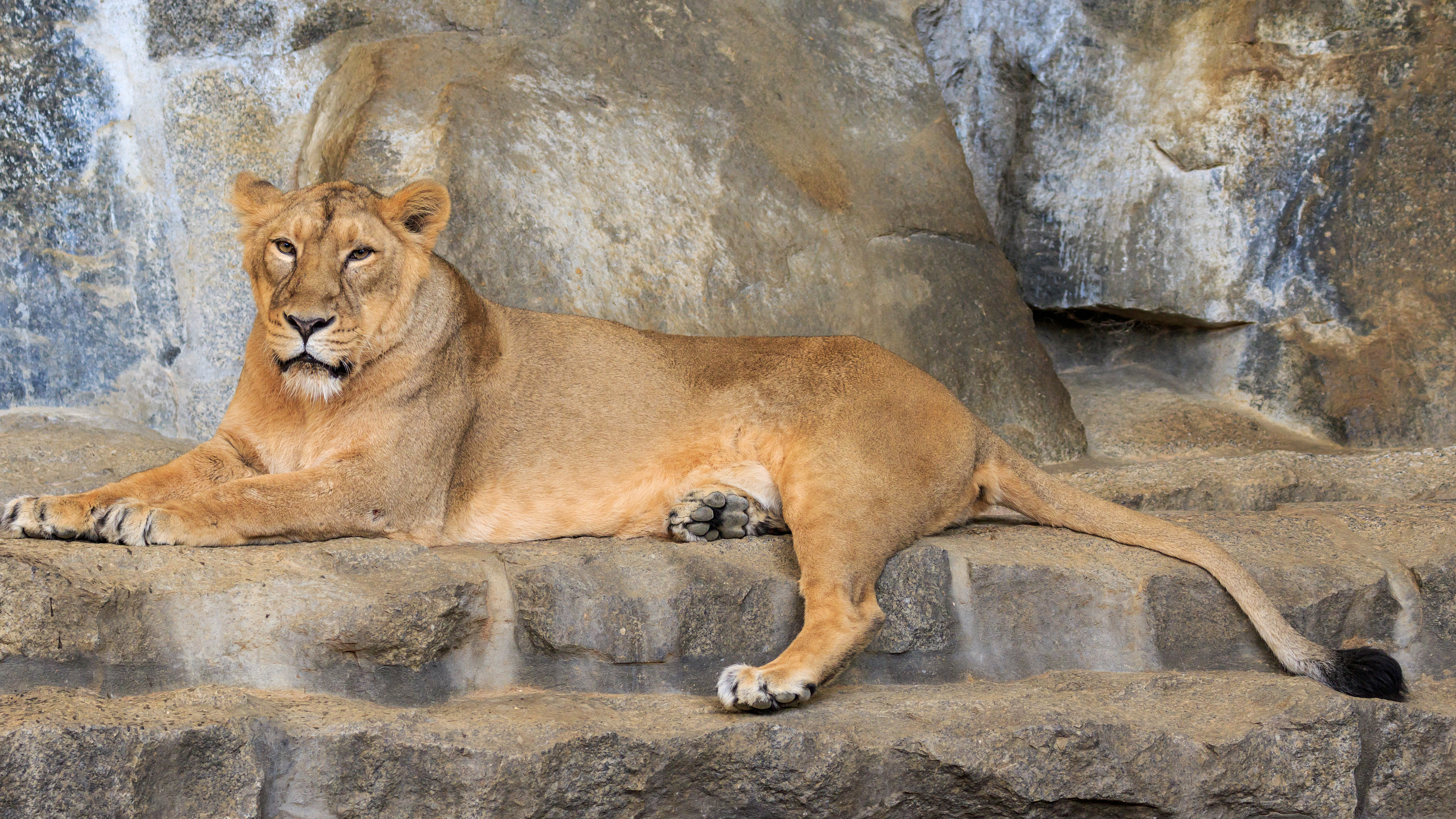 An Indian lion (female) in the Berlin Tierpark (Friedrichsfelde zoo)